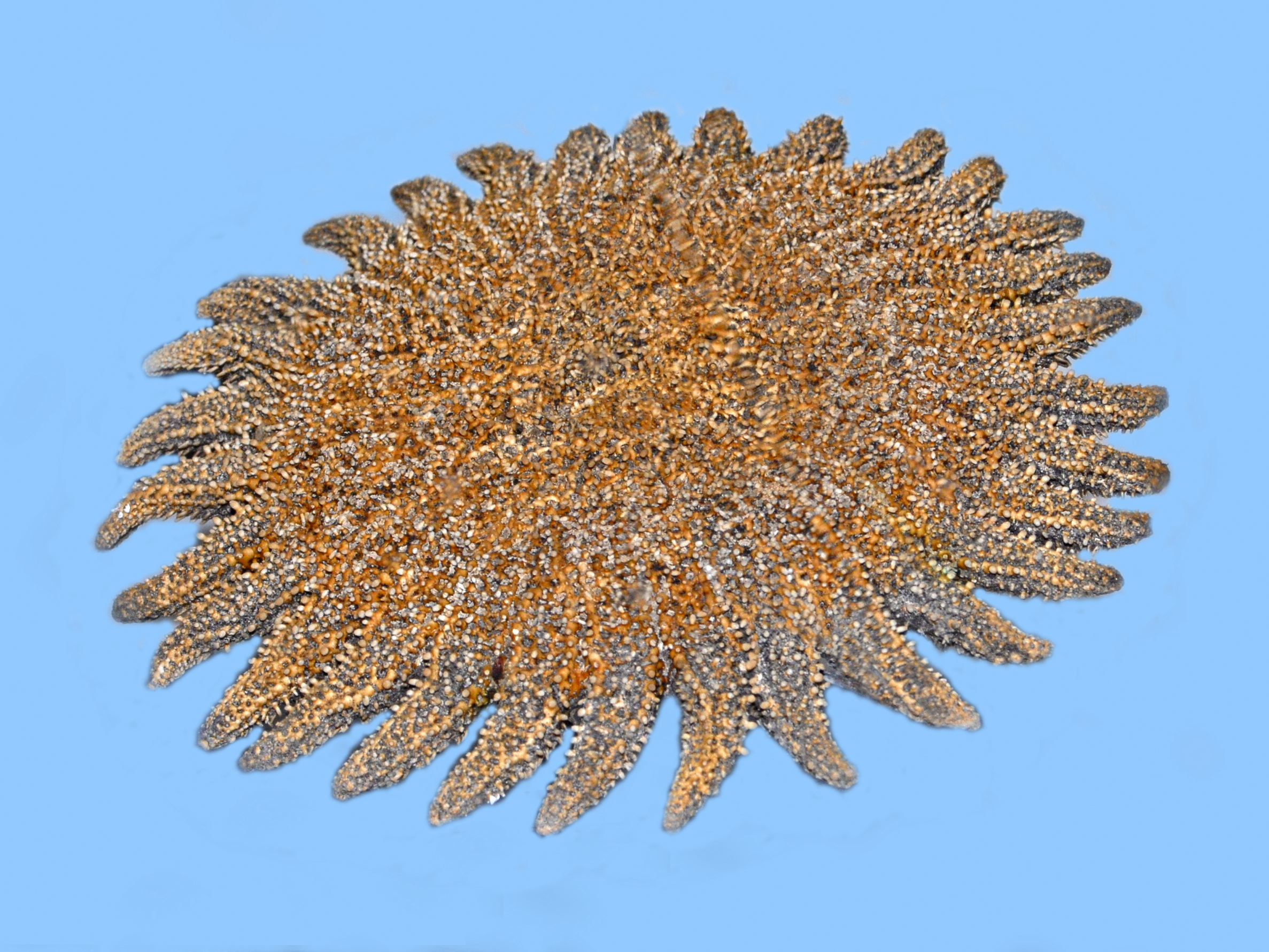 Heliaster microbrachius. Museo di Storia Naturale di Pavia